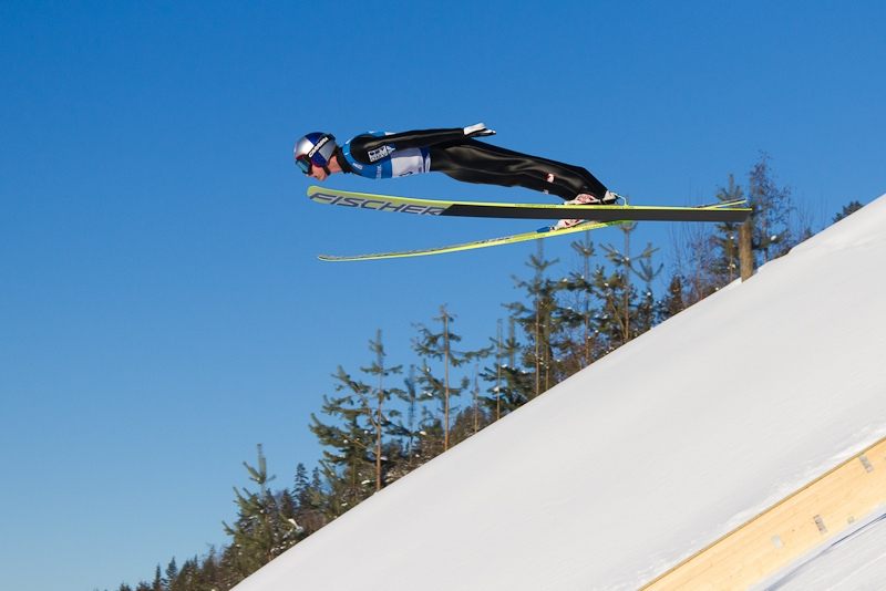 Gregor Schlierenzauer, who shared the 1st place with Johan Remen Evensen Saturday, and won on Sunday